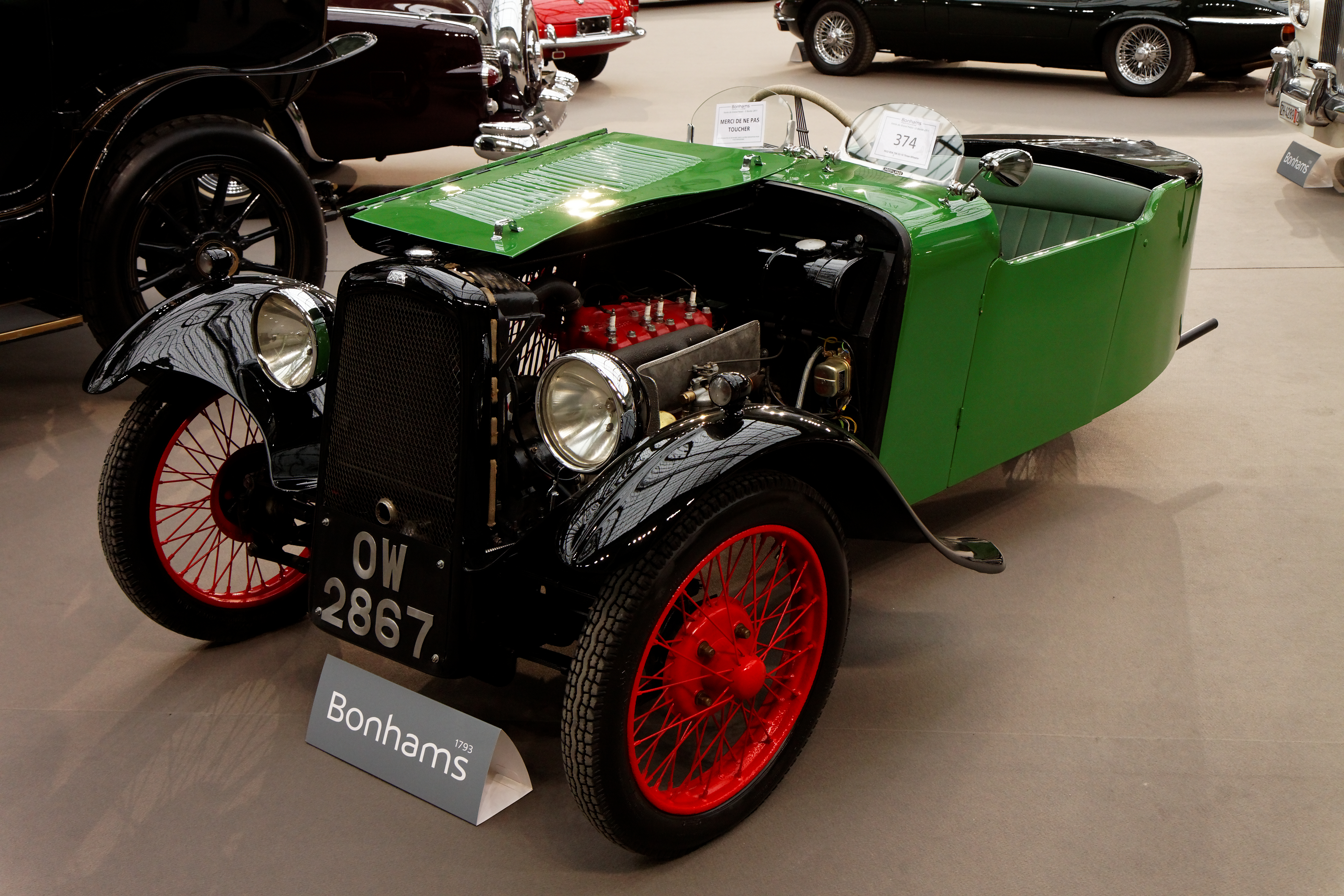 BSA 3-wheeler